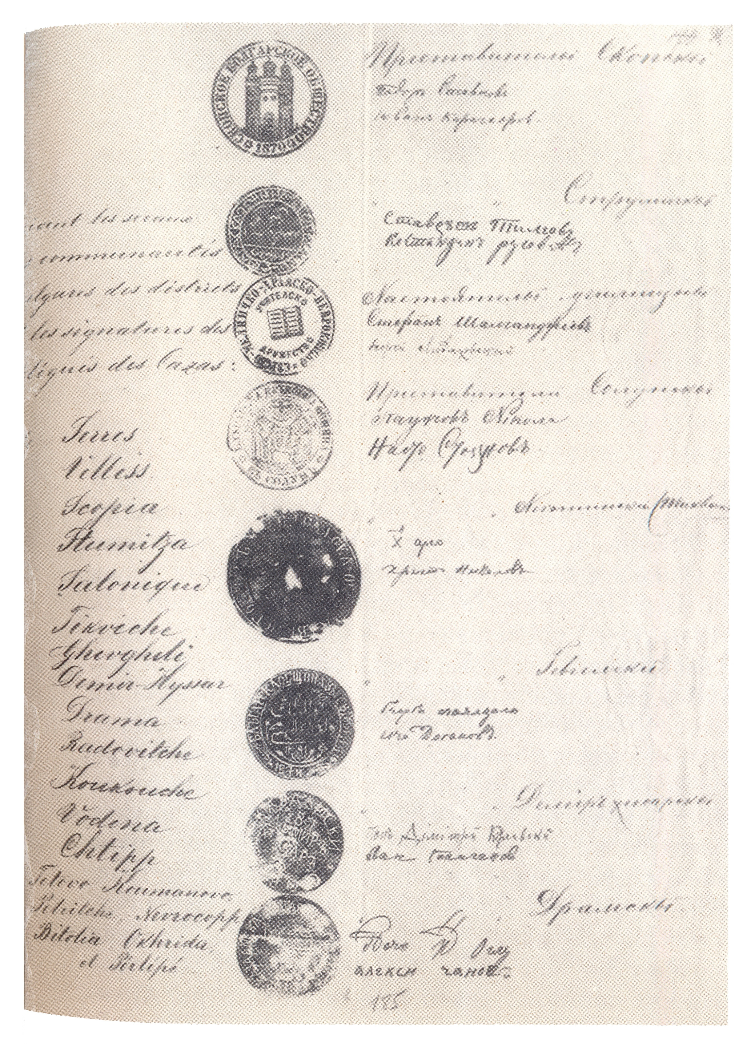 Memorandum of the Macedonian Bulgarian Municipalities to the Great Powers for unification with Bulgaria. Page 3